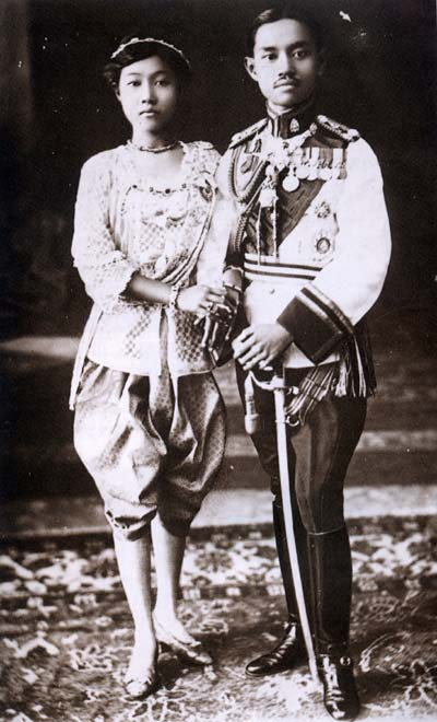 Photograph of King Rama VII and his consort Queen Rambai Barni, during the King's reign from 1925-1935